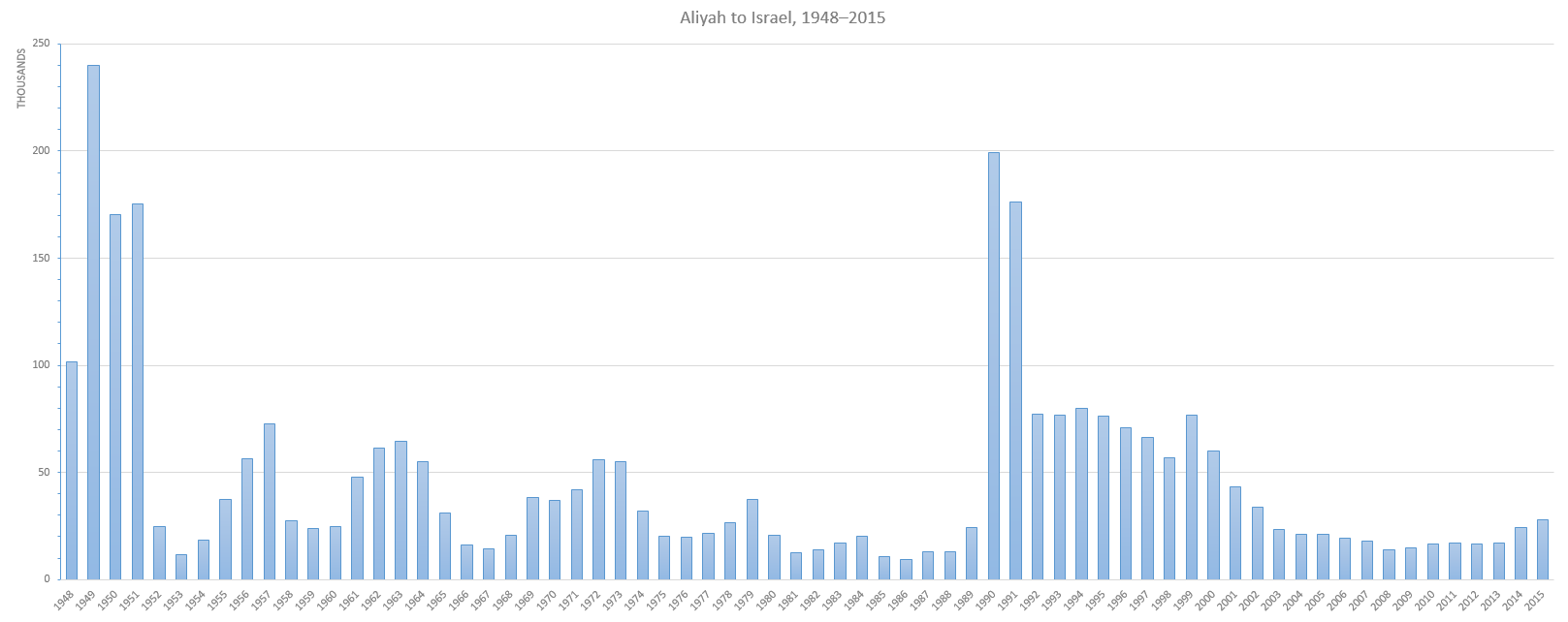 Aliyah to Israel, 1948–2015. Data source